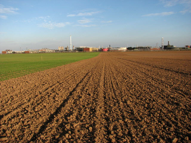 The Gas Distribution Station near Bacton The Gas Distribution Station near Bacton is one of the largest gas terminal complexes in the UK: at three producer terminals gas lands onshore and is then distributed to UK customers via the National Grid terminal, or to Belgium via the Interconnector system. The Interconnector Bacton Terminal is also used for importing gas into the UK.